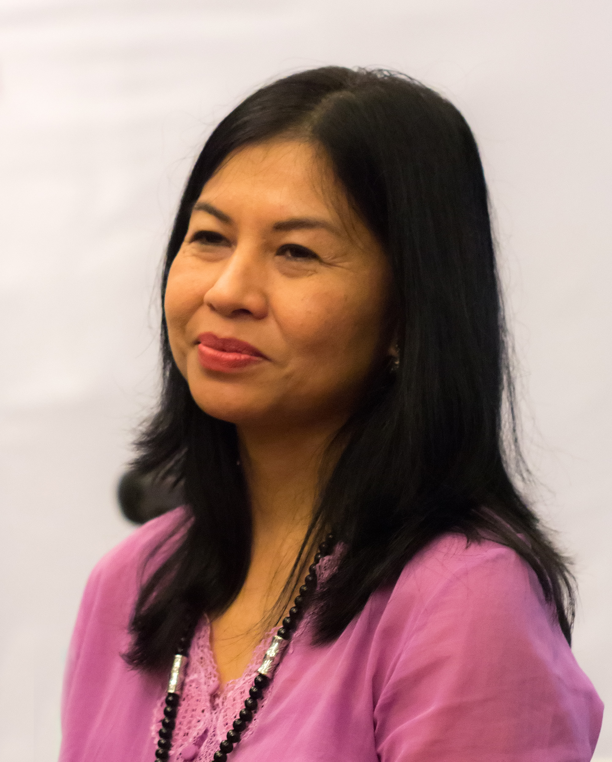 Gadis Arivia, Indonesian academic and founder of Jurnal Perempuan, at the International Conference on Feminism on 24 September 2016. This conference was held by Jurnal Perempuan at the Swiss-Belhotel in Kemang, Jakarta, in commemoration of its twentieth year.